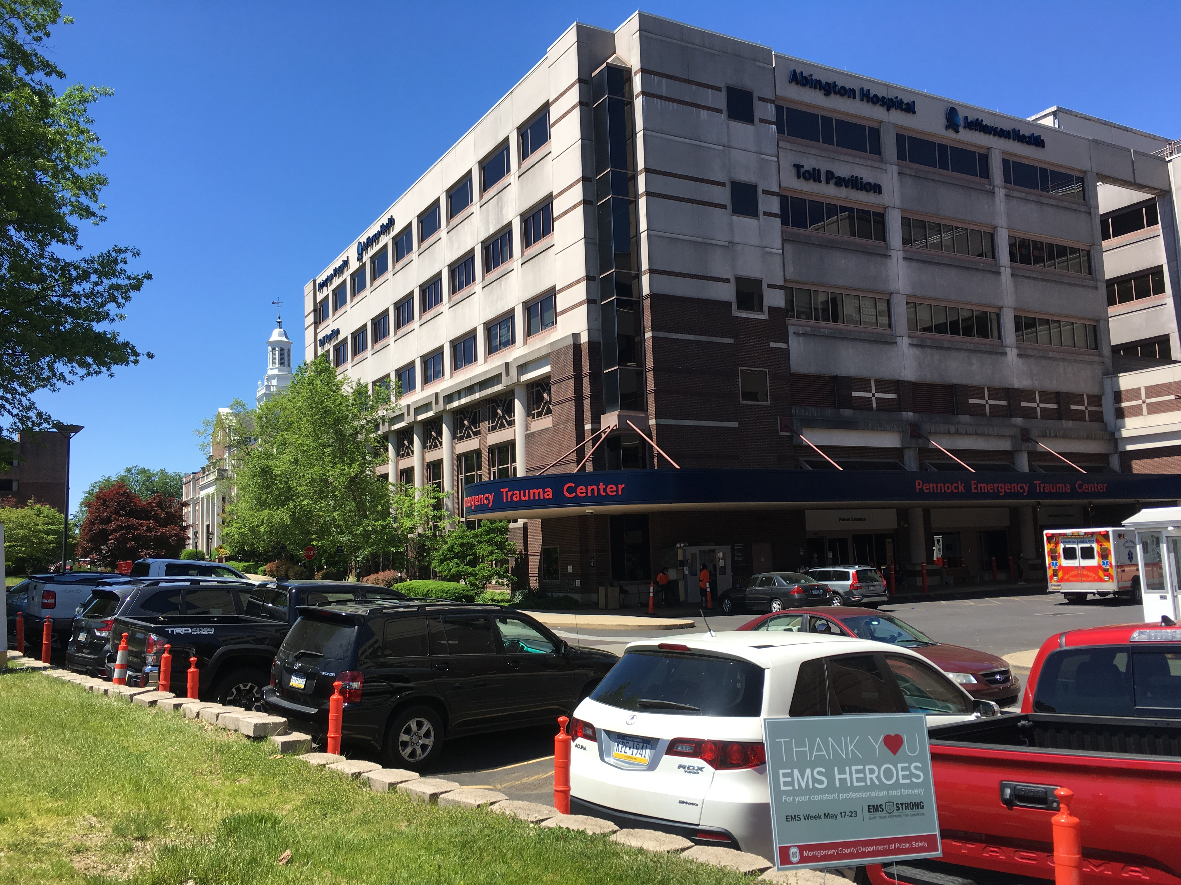 Abington Hospital-Jefferson Health in Abington Township, Pennsylvania viewed from the emergency room entrance.